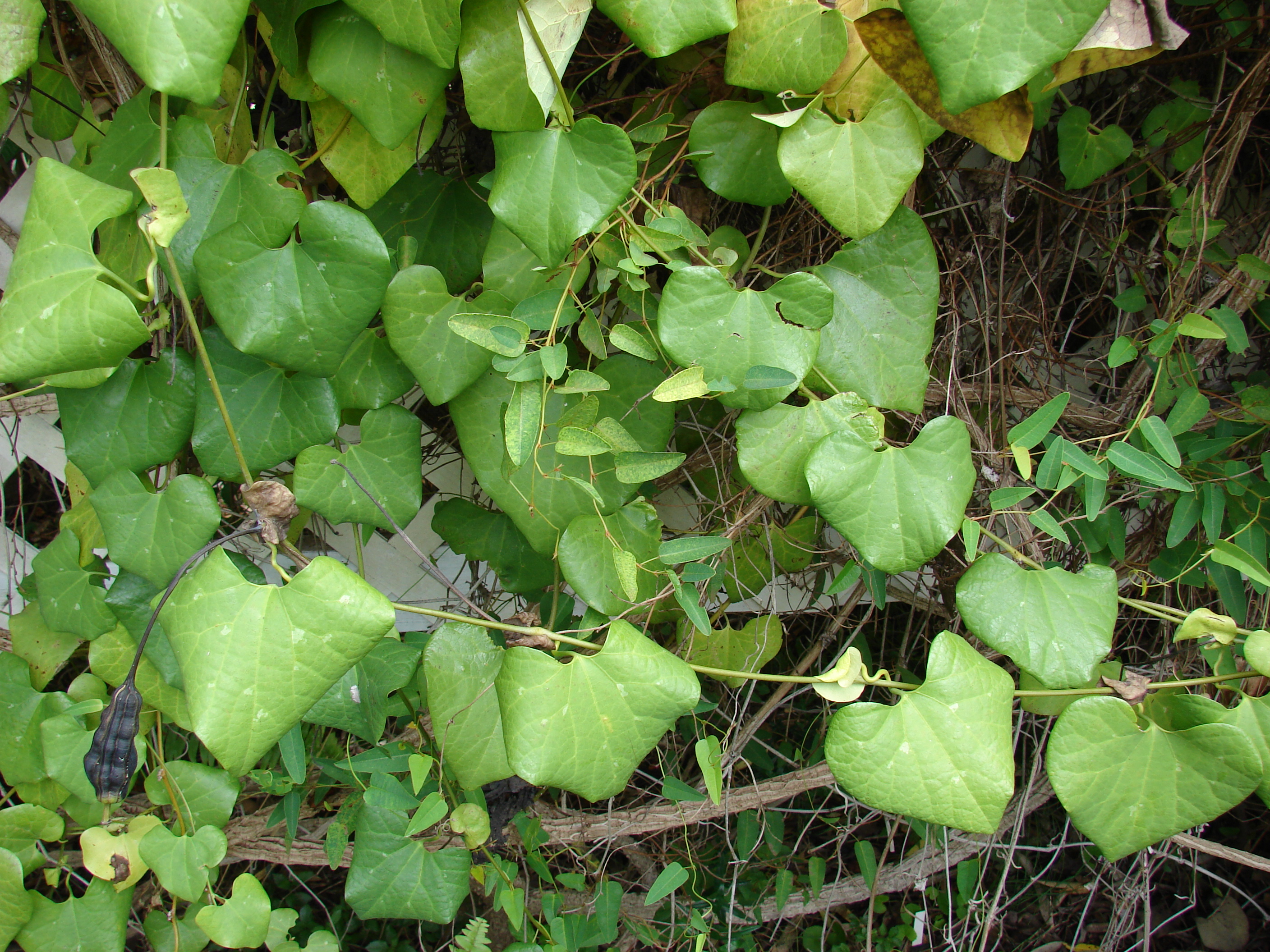 Aristolochia littoralis (leaves and fruit). Location: Maui, Enchanting Gardens of Kula